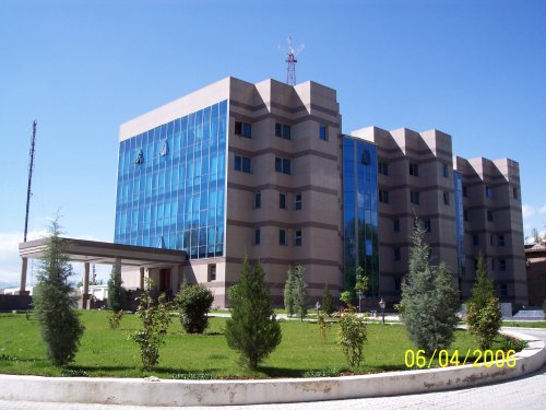 Building of the National Bank of Tajikistan, Dushanbe, Tajikistan